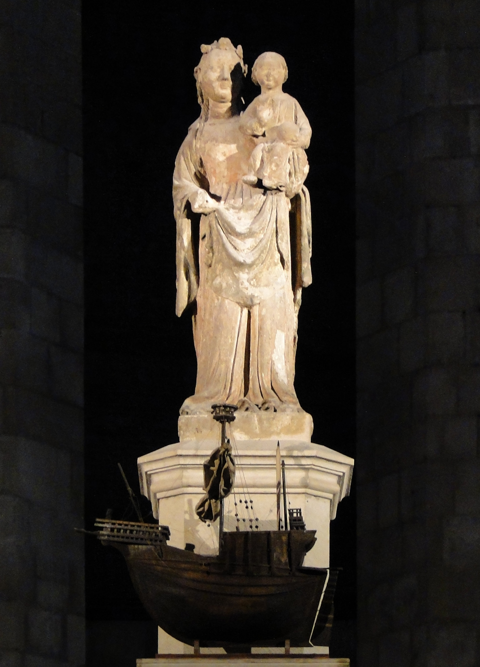 Statue of Madonna and Child in Santa Maria del Mar Church, Barcelona, Spain